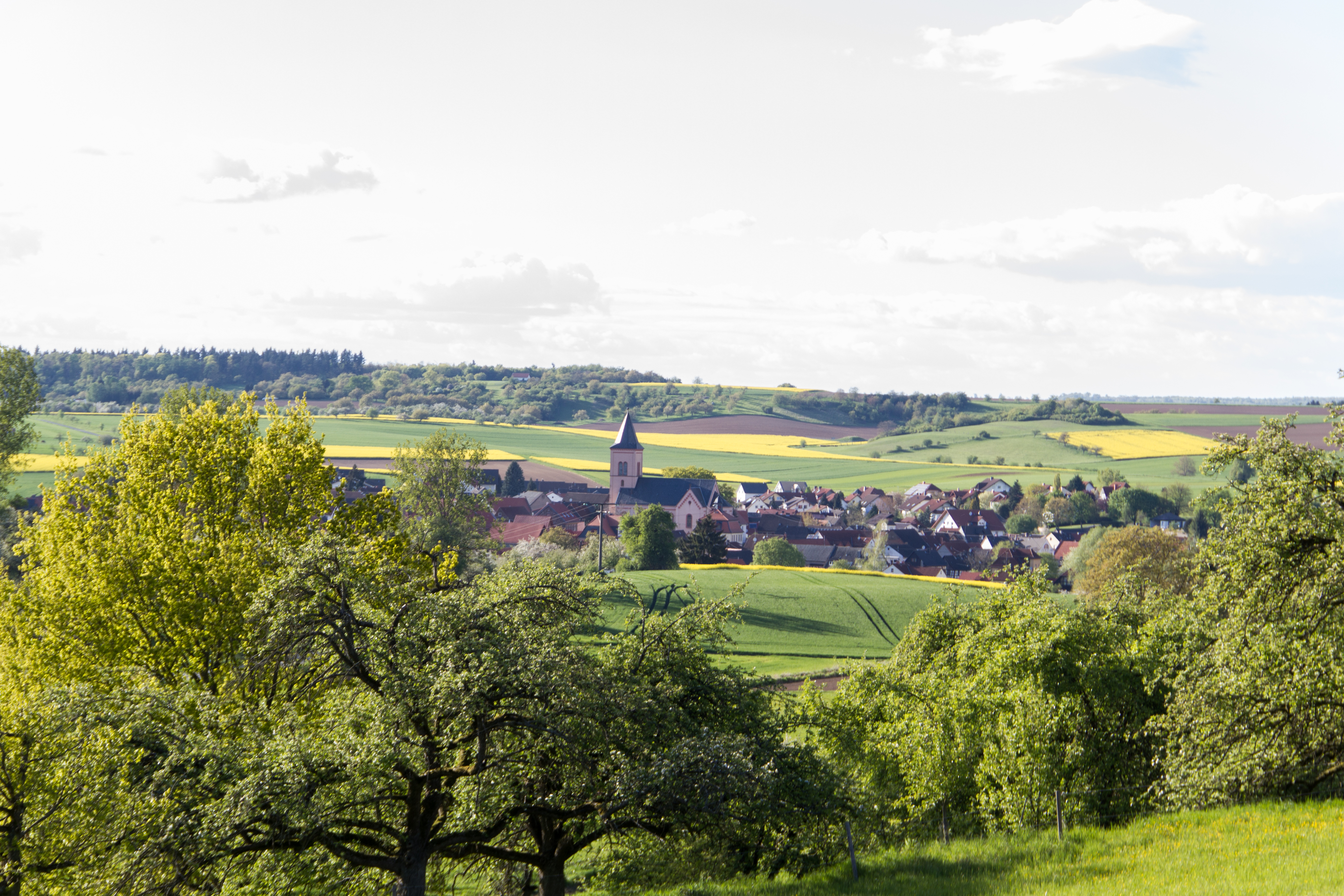 Area view of Eckartshausen, city in Büdingen